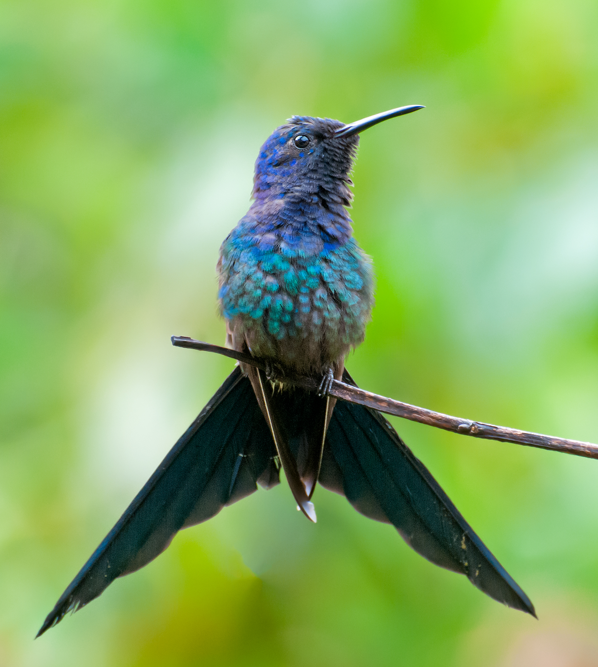 A Swallow-tailed Hummingbird in Piraju, São Paulo, Brazil.